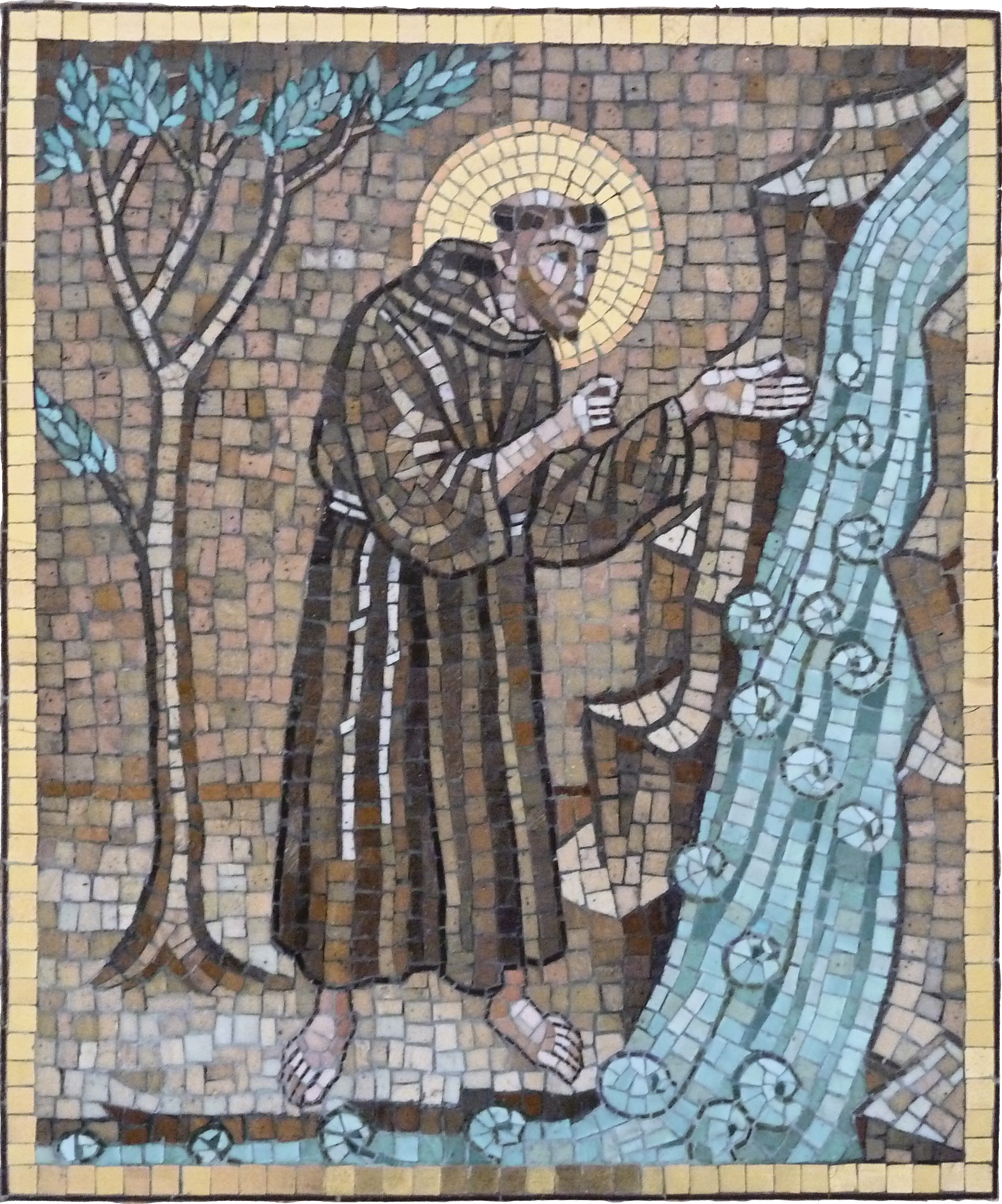 OFM General Curia : Mosaic Laudes Creaturarum